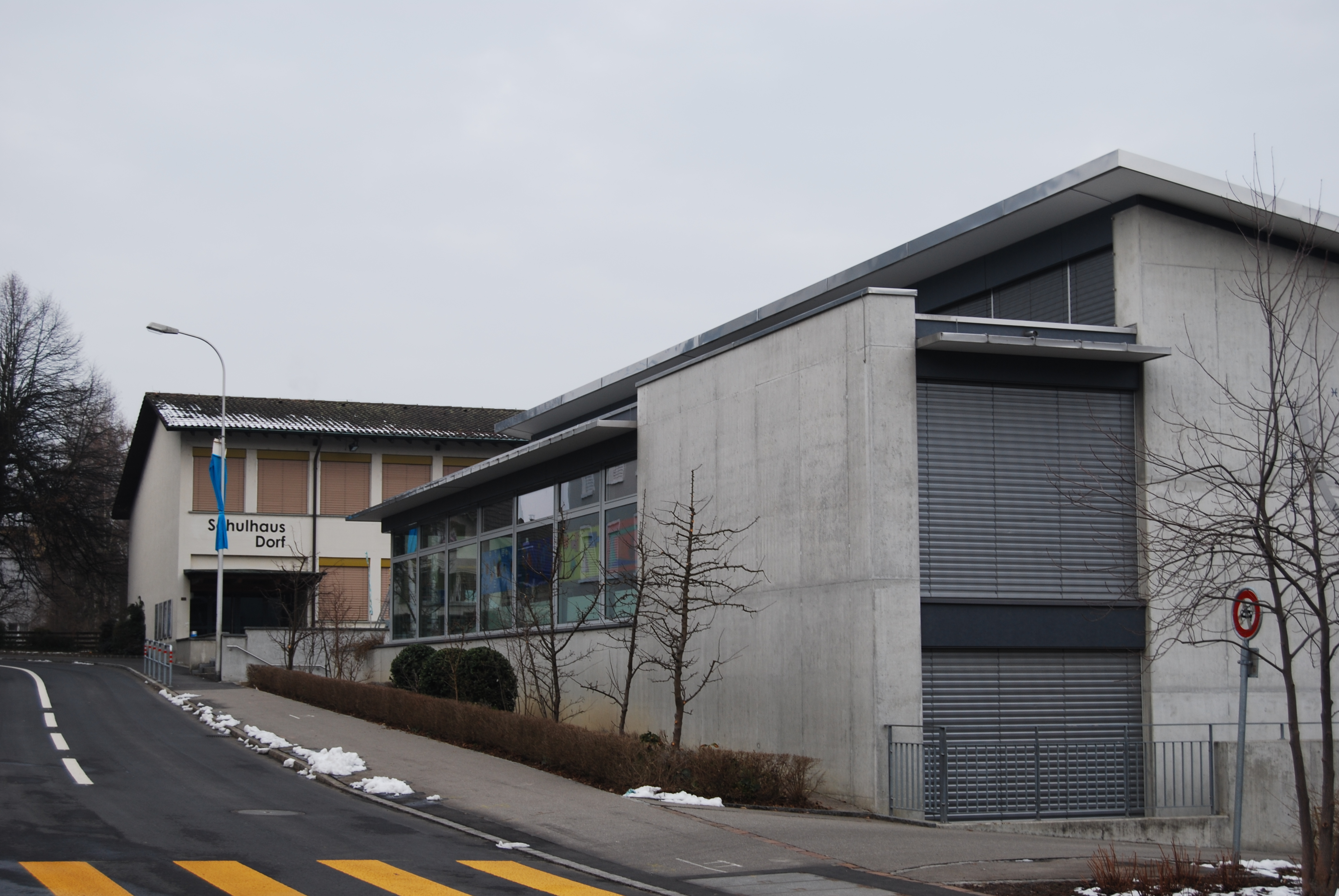 Village school of Villmergen, canton of Aargau, SwitzerlandEsperanto: Vilaĝa lernejo de Villmergen, Kantono Argovio, Svislando